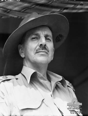 PORT MORESBY, PAPUA. 1942-07. THE FIGHTING FACE OF THE LEADER OF AUSTRALIAN TROOPS IN NEW GUINEA, MAJOR-GENERAL B.M. MORRIS. GENERAL OFFICER COMMANDING NEW GUINEA FORCE.